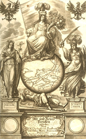 Teutonic Knight victory in Prussia: native Prussian is lying under the map of Old Prussia.